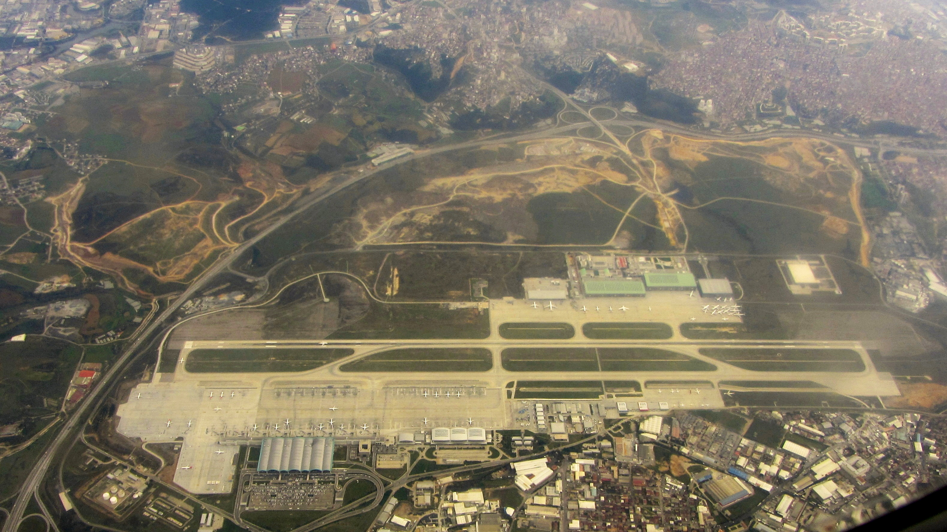 The airport Istanbul Sabiha Gökçen from the air